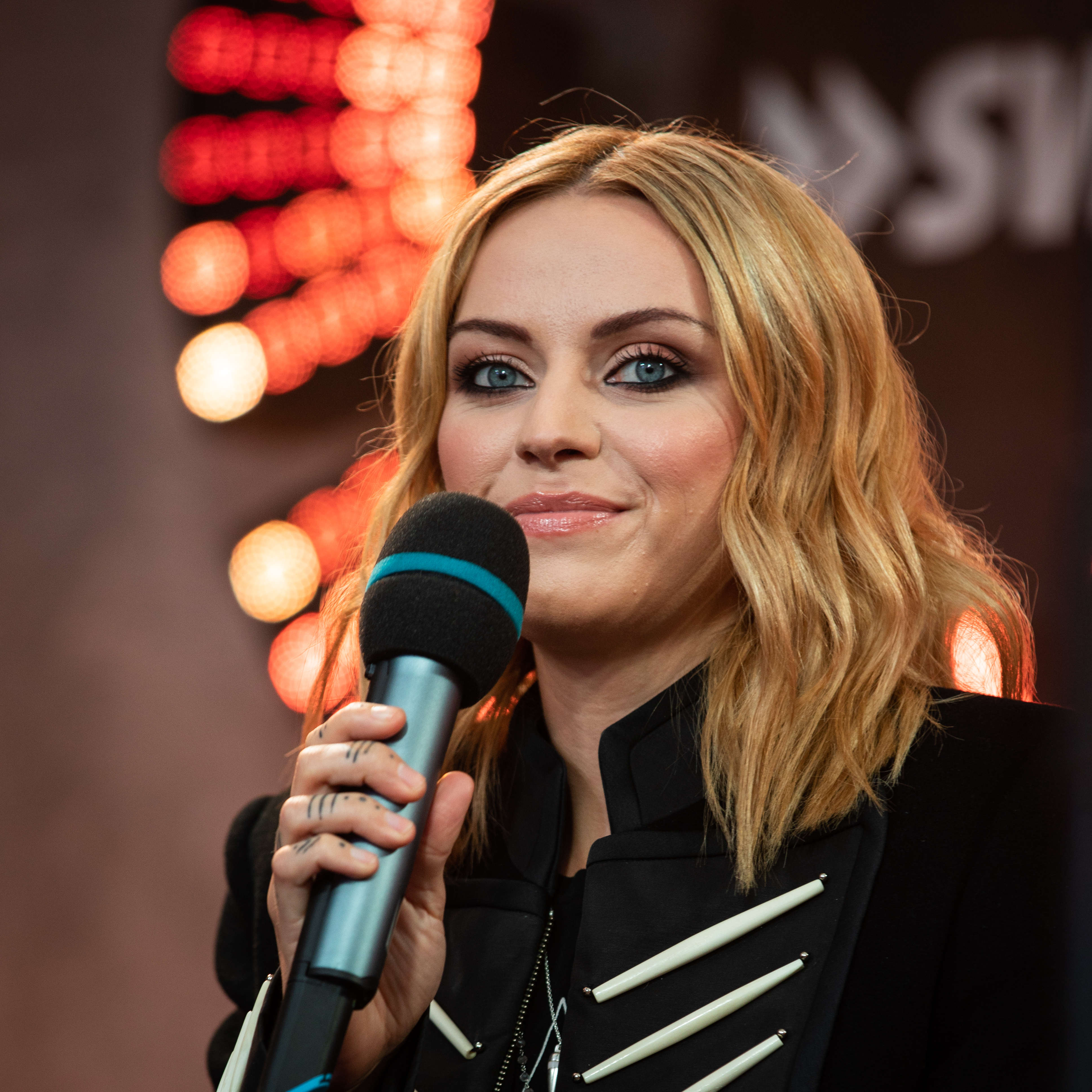 Scottish singer and songwriter Amy Macdonald at the SWR3 New Pop Festival 2018